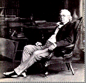 William Makepeace Thackaray